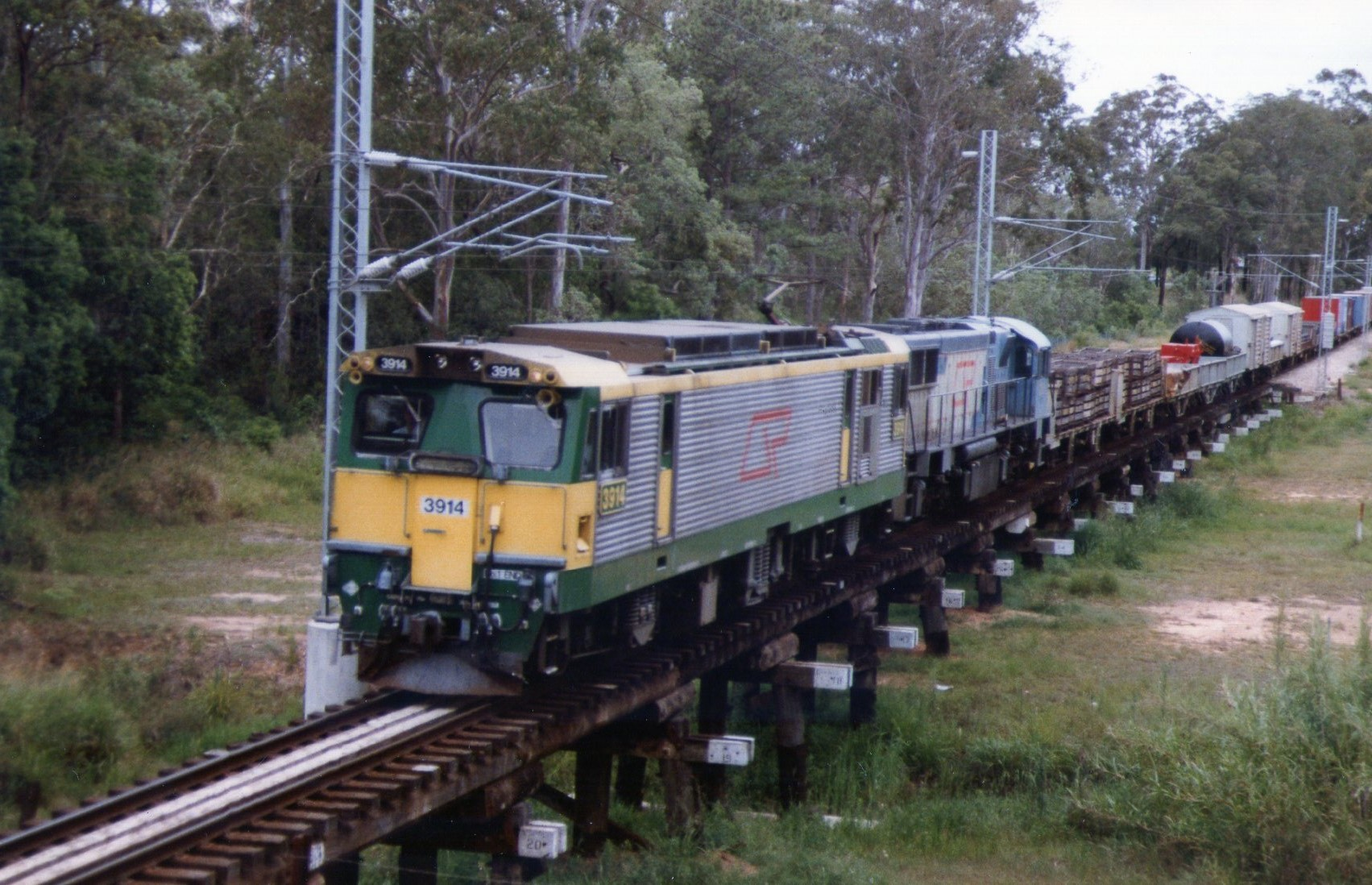 QR electric loco 3914 hauls a goods train on the NCL north of Gympie, ~1990